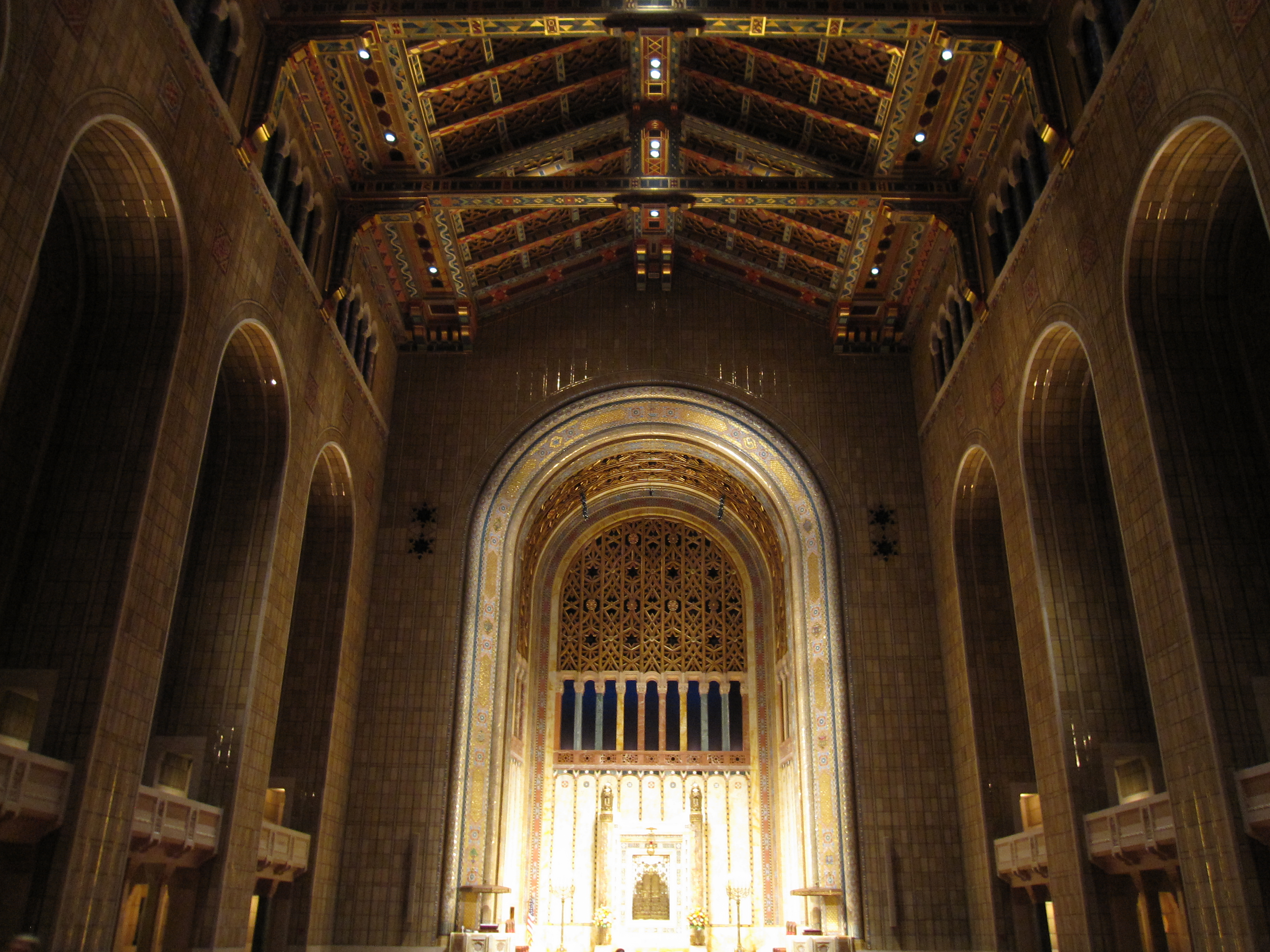 Temple Emanu-El, New York